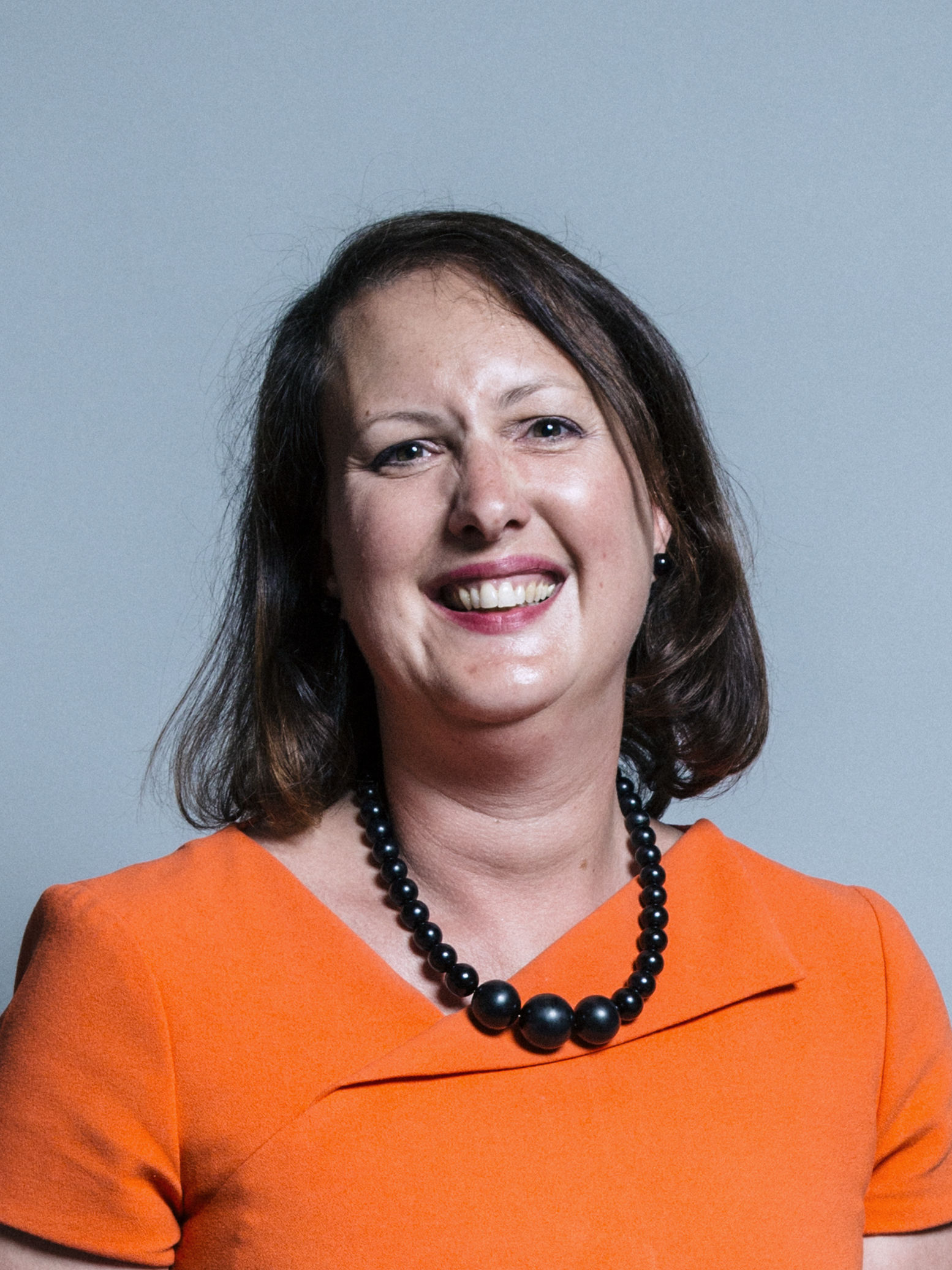 Official portrait of Victoria Prentis